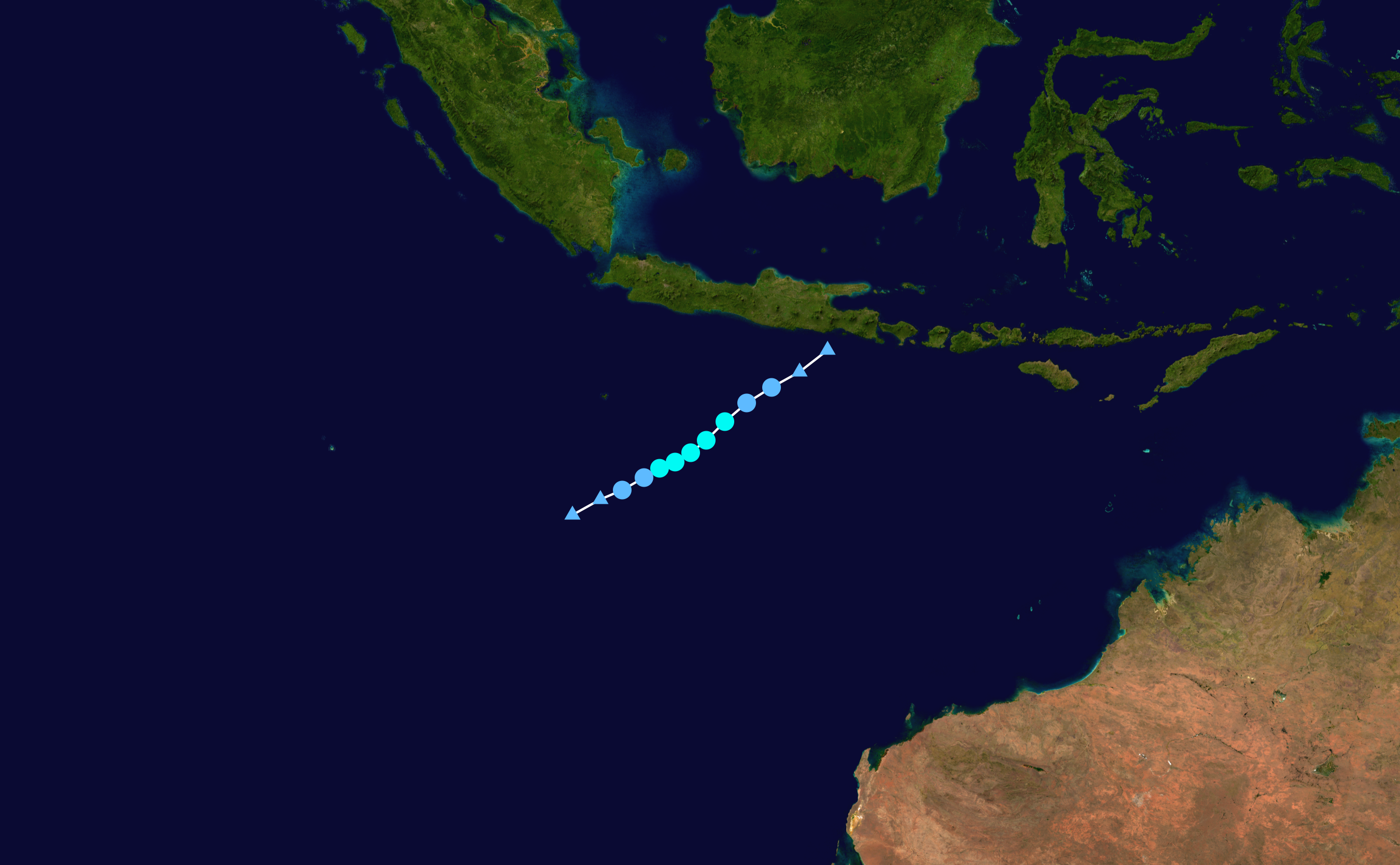 Tropical Cyclone 05S (2004) track. Uses the color scheme from the Saffir-Simpson Hurricane Scale.